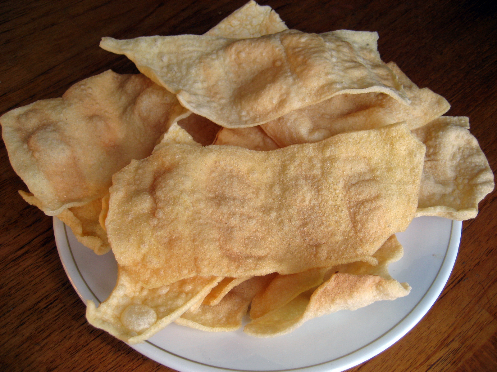 London: Tofu crackers or Shan tohpu gyauk fried